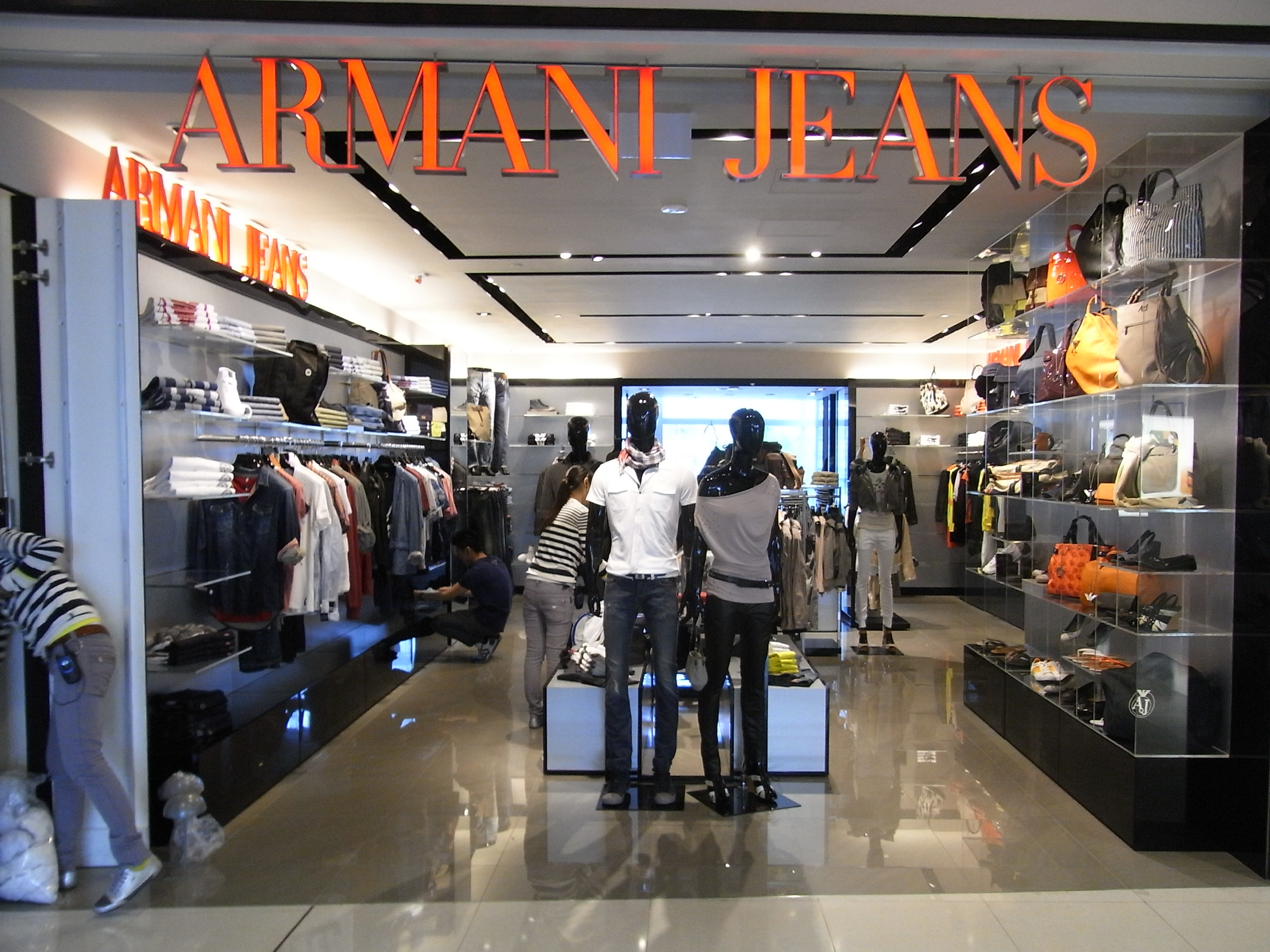 Image of staff working in interior of Armani Jeans at 國際金融中心 商場 (IFC Mall), Central, Hong Kong